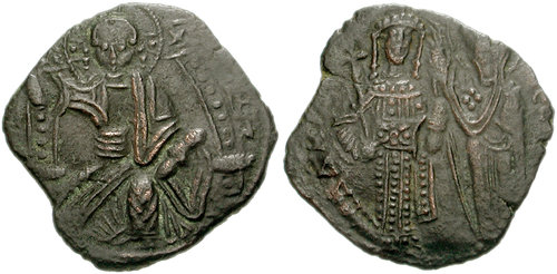 Isaac Comnenus. Usurper in Cyprus, 1185-1191. Æ Tetarteron (20mm, 2.75 g, 12h). Struck circa 1187-91. Beardless Christ enthroned, holding scroll in left hand, raising right hand in benediction / Isaac standing facing on left, holding scepter cruciger and akakia, being crowned by Virgin, on right.